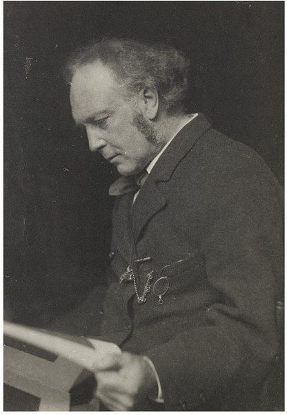 Portrait of Reverend Stopford Augustus Brooke (1832-1916) Portraits of many persons of note photographed by Frederick Hollyer, Vol. 1, platinum print, ca. 1890 Victoria and Albert Museum, London, museum no. 7635-1938 (Link)